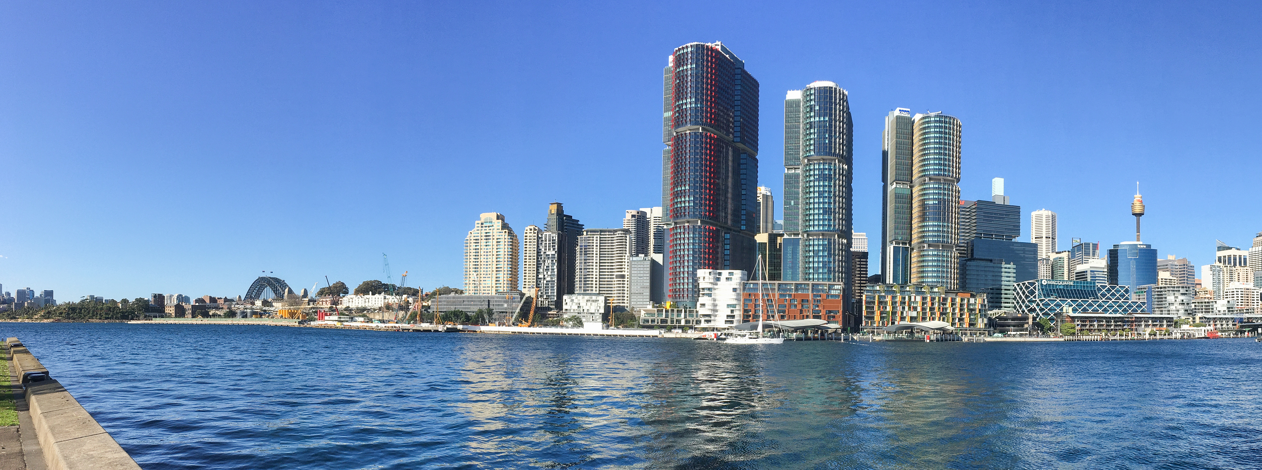 Barangaroo overview